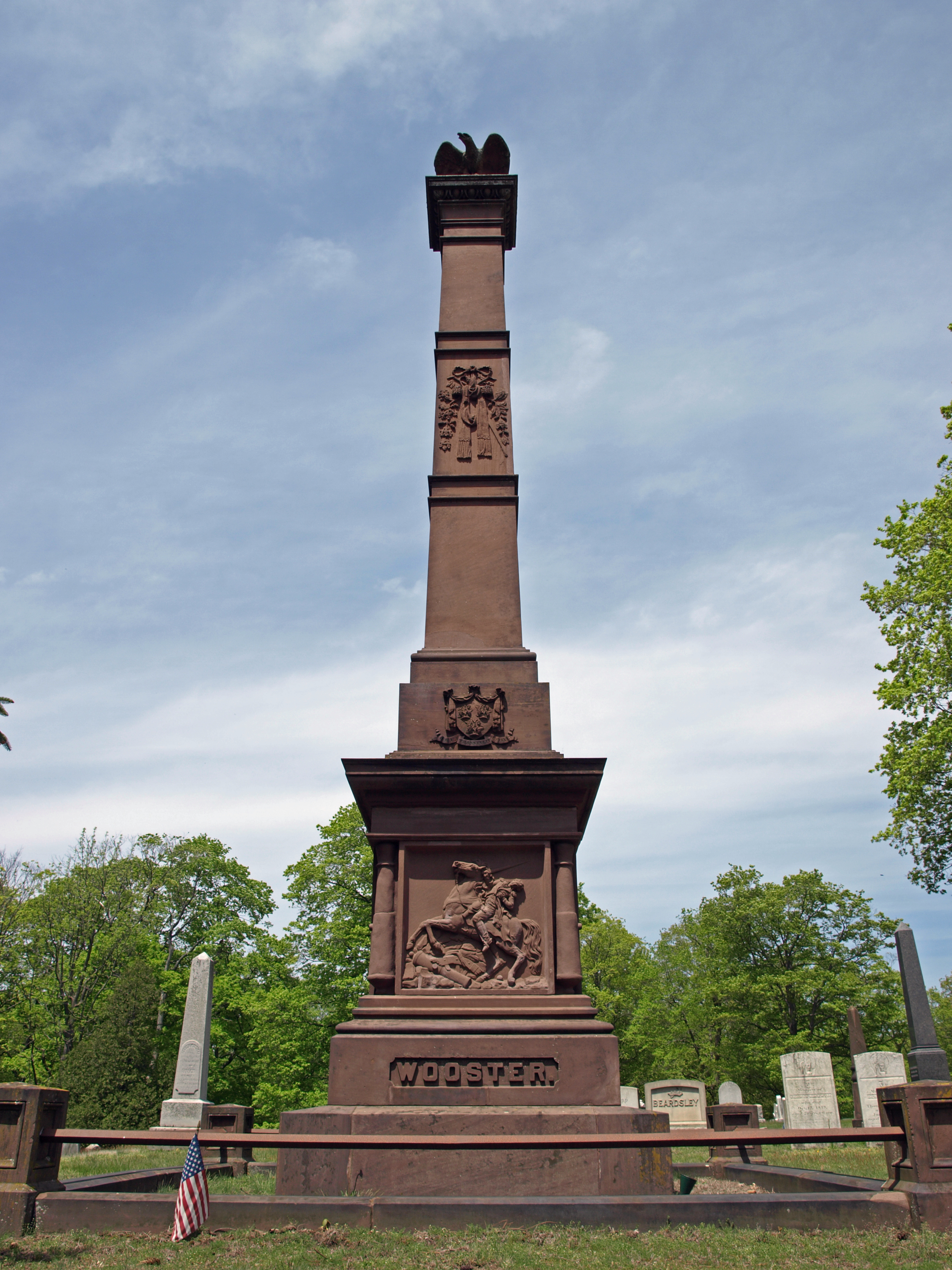 General David Woosters, Monument in Wooster Cemetery Danbury, CT